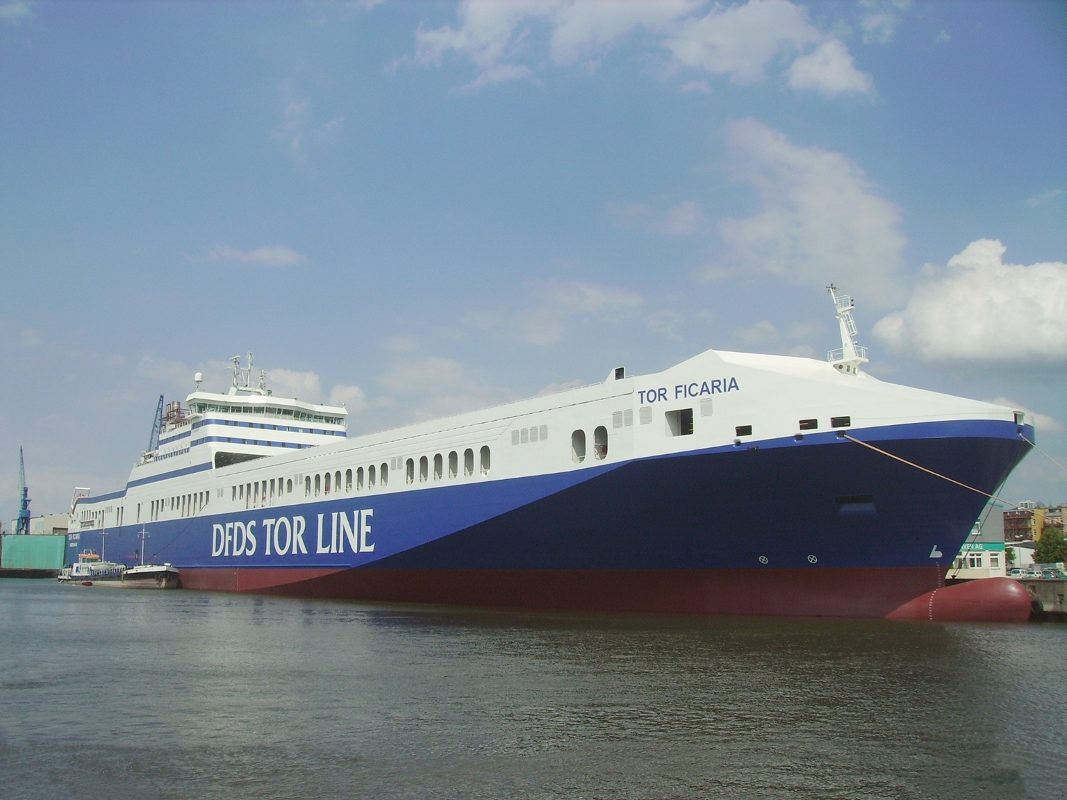 The ro-ro ship Tor Ficaria at MWB in Bremerhaven. IMO number: 9320568